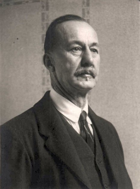 From here